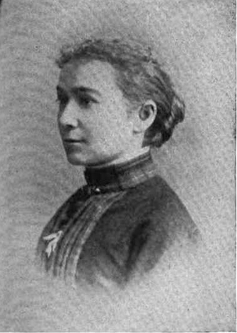 Mary Adaline Edwarda Carter